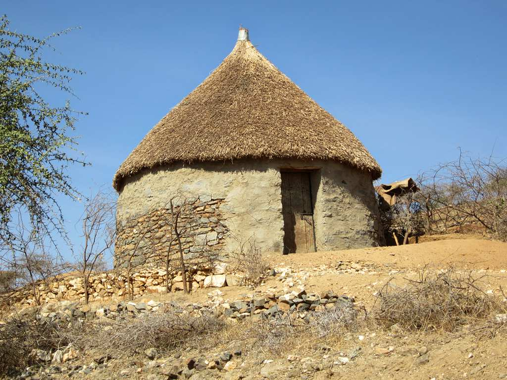 A traditional house of the Bilen people east of Keren, Eritrea.